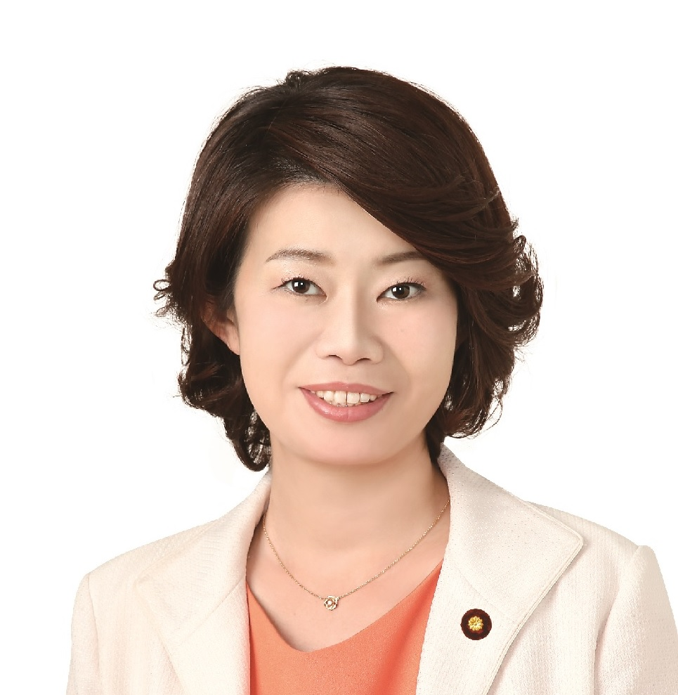 kunimitsuayanopicture